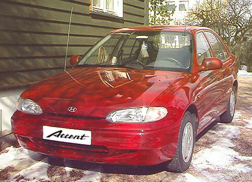 1997 Hyundai Accent GLS (5-door) I took this picture.